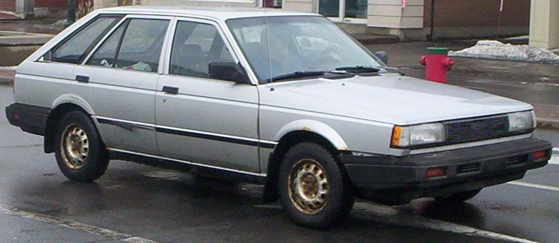 1987-1988 Nissan Sentra photographed in Montreal, Quebec, Canada.